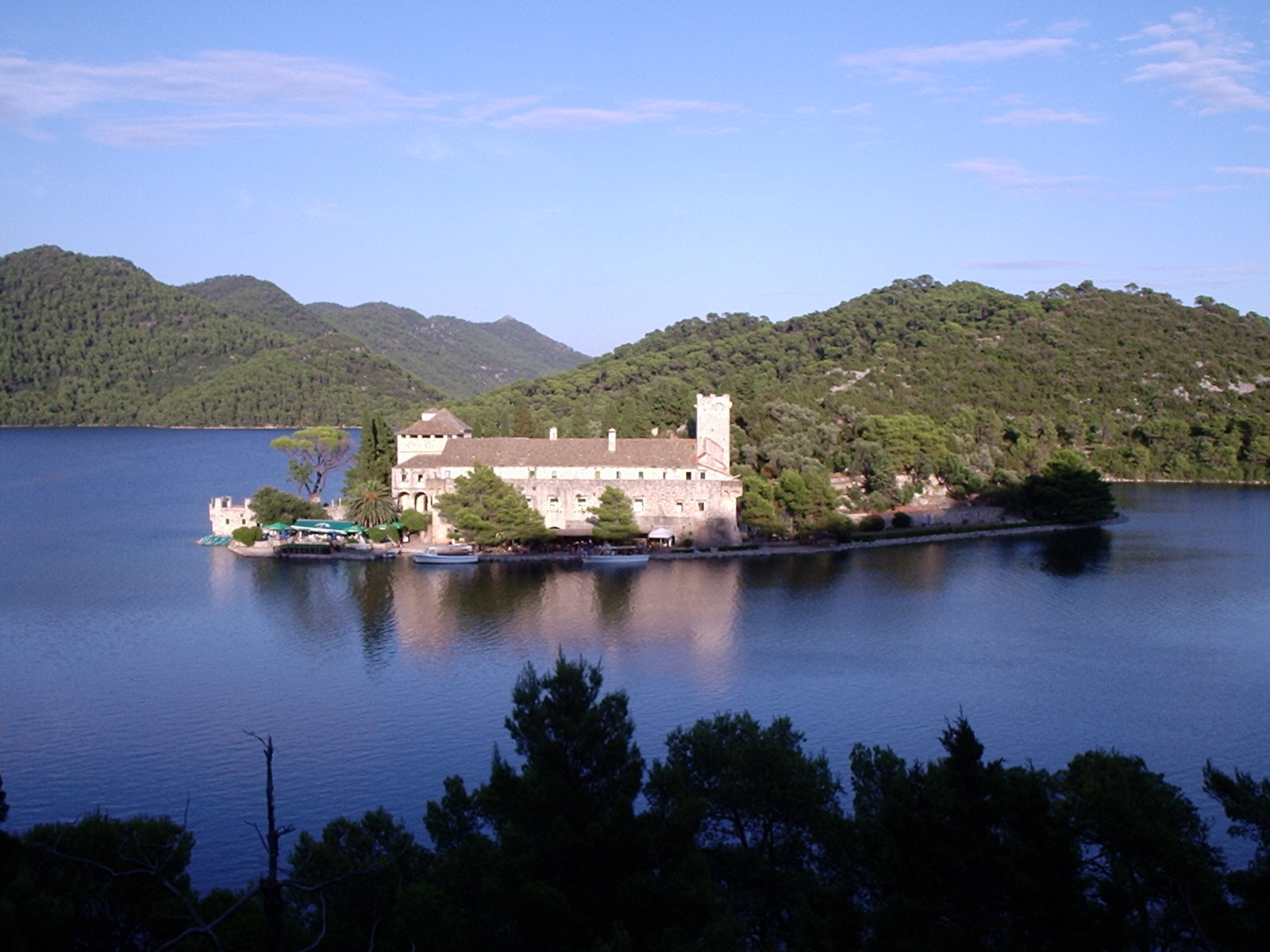 The islet of Saint Mary in the middle of the Great lake on the island of Mljet, Croatia